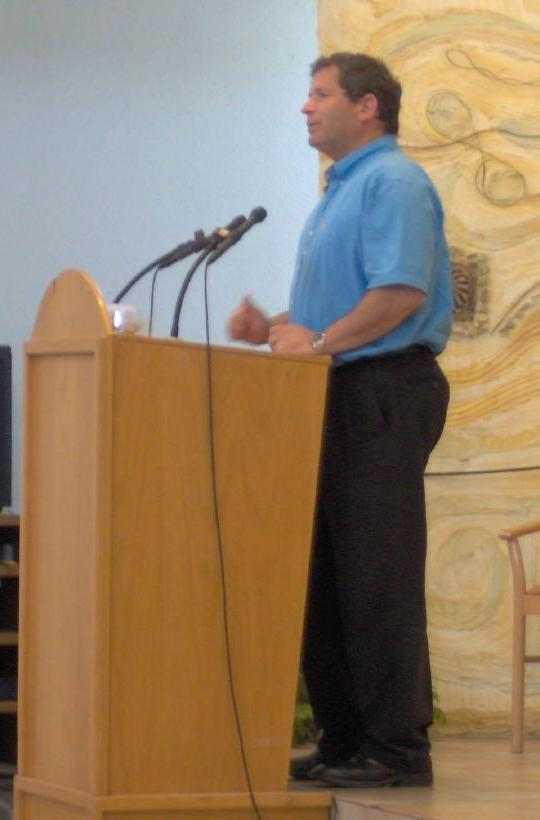 Avshalom Vilan, Israeli politician of the Meretz party